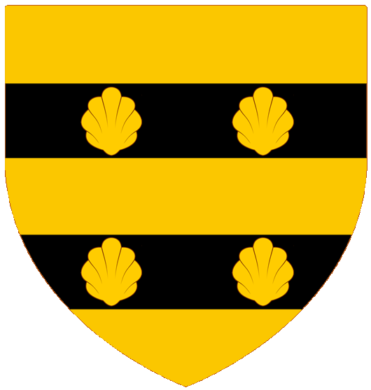 Shield of arms of The Viscount Bayning